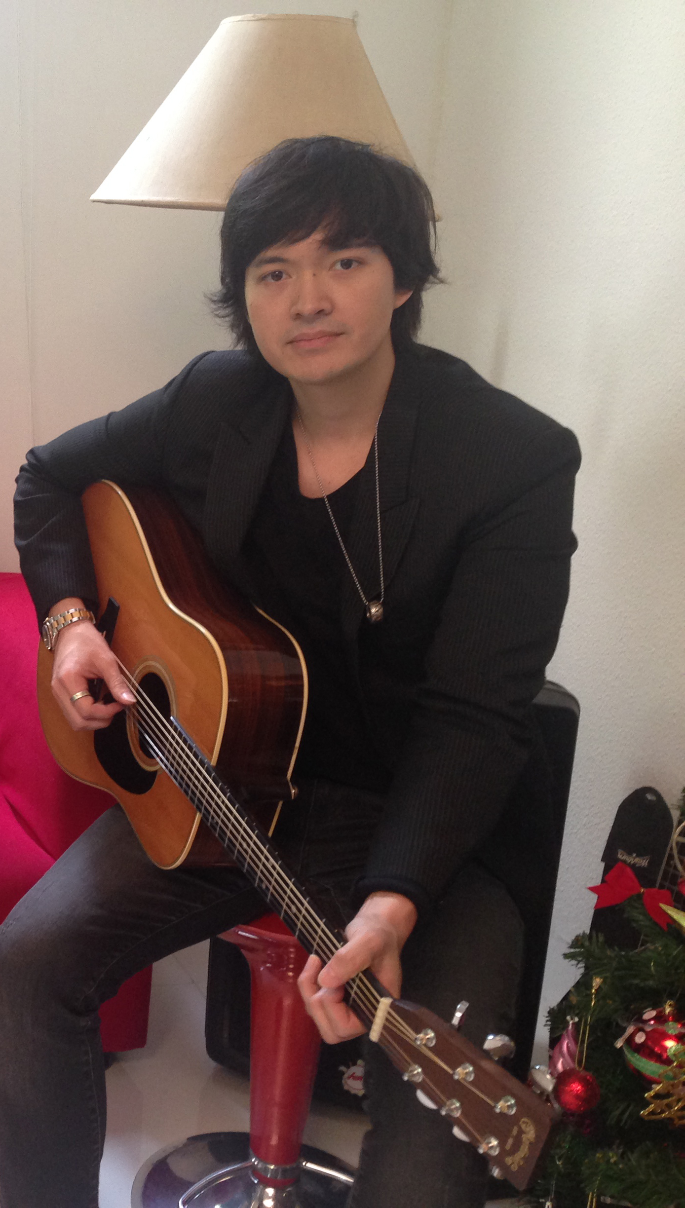 Namm Ronnadet at VERY TV.